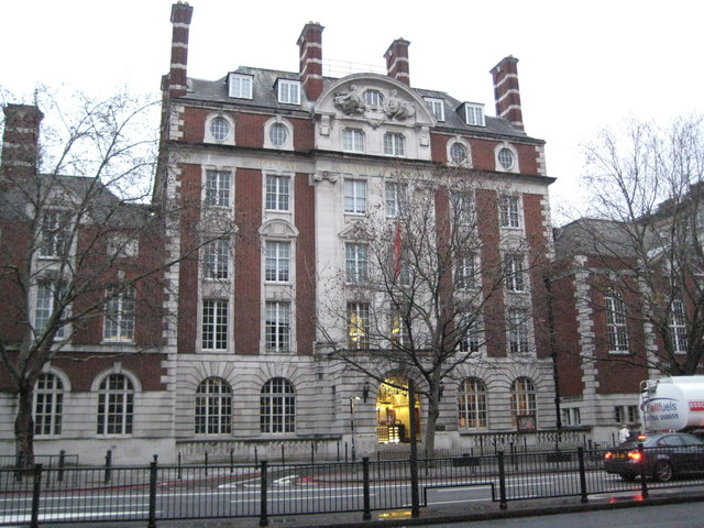 Royal Academy of Music Viewed across Marylebone Road this building was purpose-built for the Academy in 1911, replacing an older building in Tenterden Street. The Royal Academy of Music had been founded in 1822 by Lord Burghersh and was granted a Royal Charter by King George IV in 1830. In 1999 the conservatoire became a full member of the University of London. The Academy's website is here